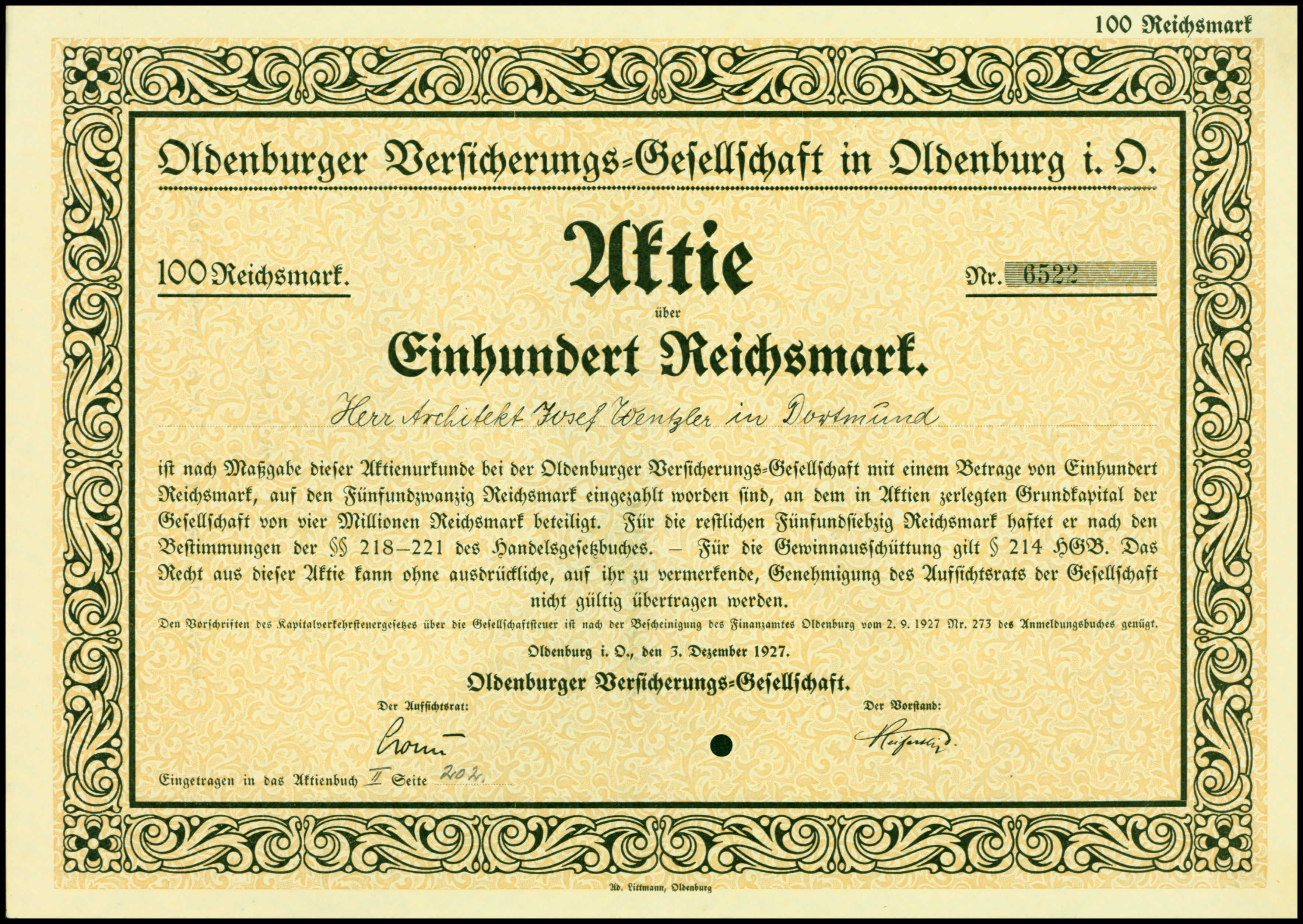 Registered Share of the Oldenburger Versicherungs-Gesellschaft, issued 3. December 1927